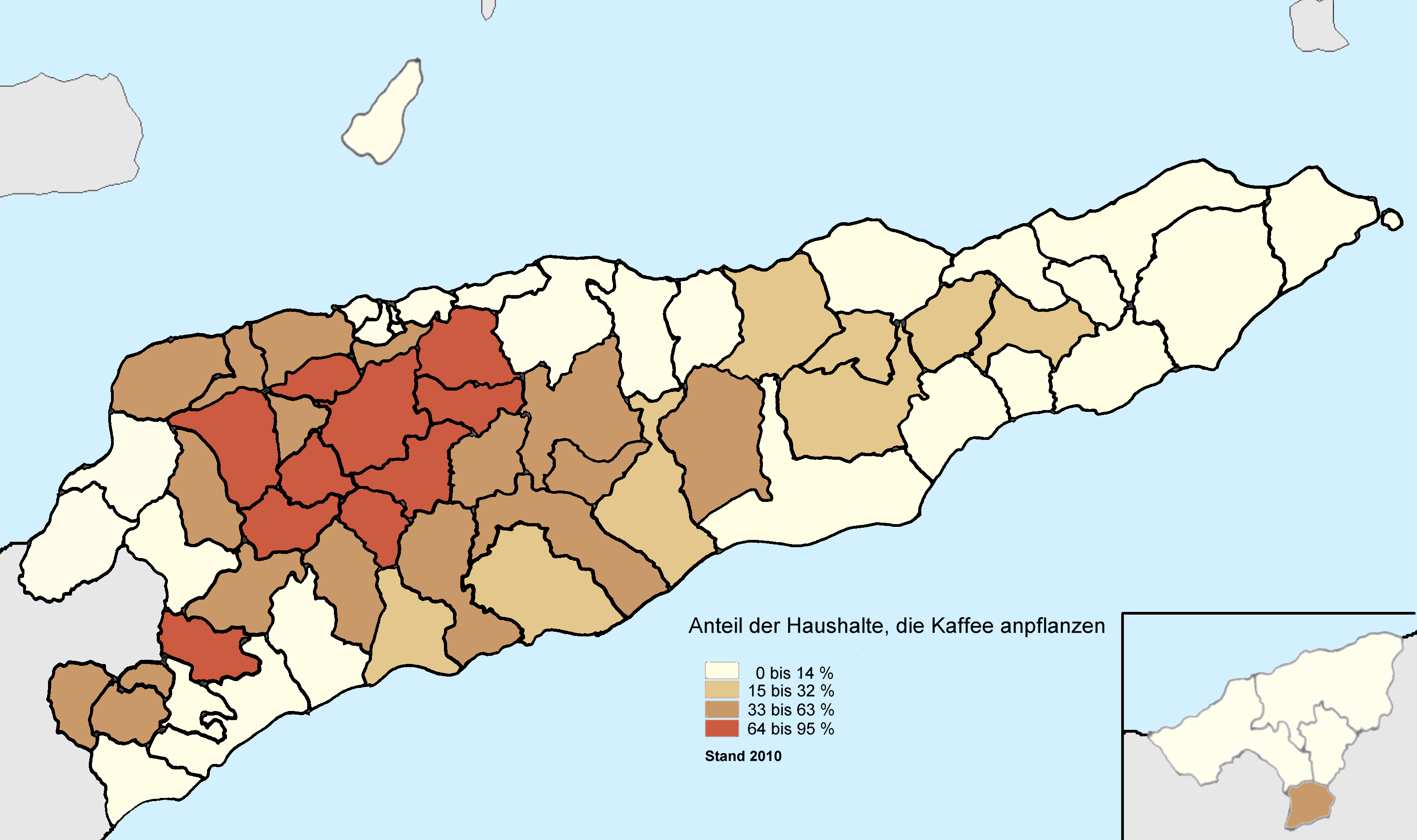 Percentage of households growing coffee in the subdistricts of Timor-Leste